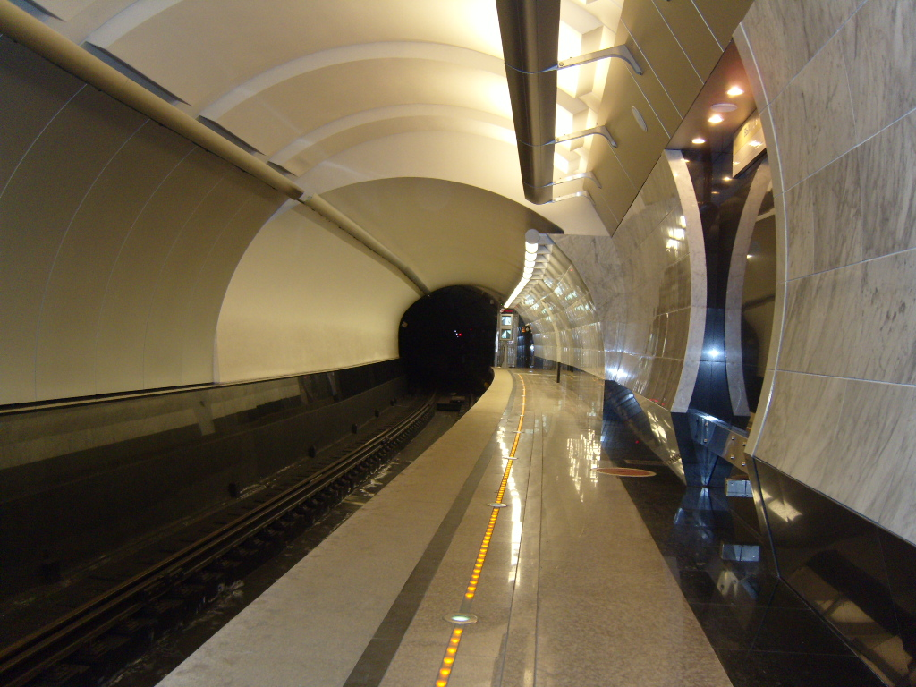 Tonnel at the center on the Moscow Metro station "Mezhdunarodnaya"